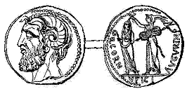 738 woodcuts illustrating the work A Dictionary of Roman Coins, Republican and Imperial (1889). To identify a coin please look at the filename to identify a page number, and check the Dictionary on numiswiki